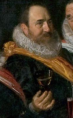 Portrait of Hendrick van Berckenrode in The Banquet of the officers of the Saint George Civic guard in Haarlem in 1616, detail